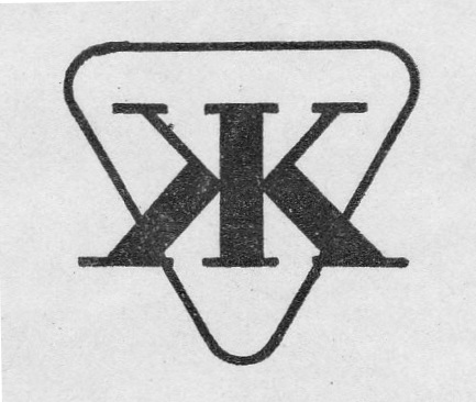 The logotype for the Swedish voluntary defence organisation Kvinnlig krigsberedskap, formed in 1917. The organisation does not exist anymore.